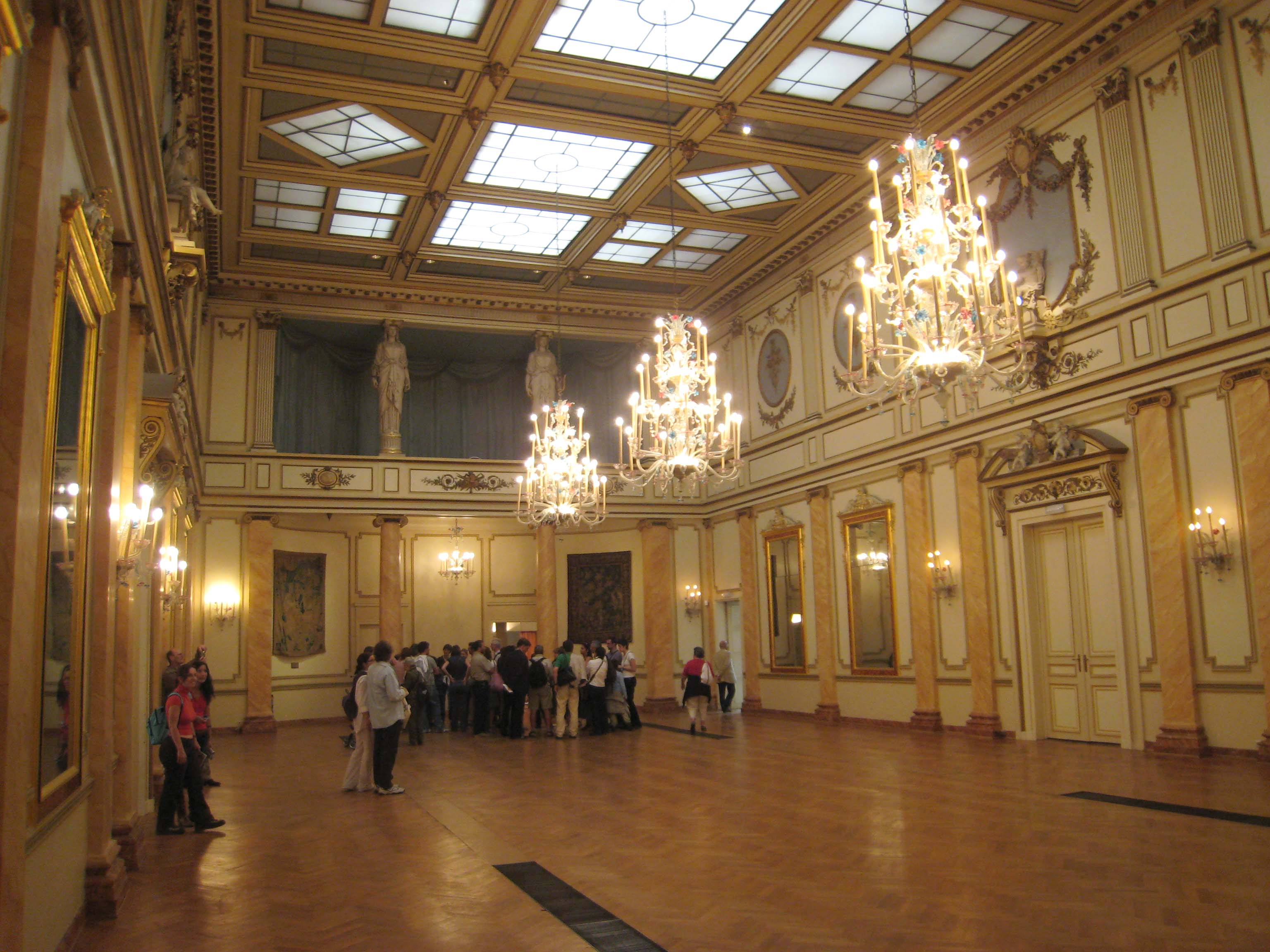 Inside the Cercle Gaulois, Brussels